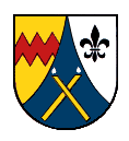 Coat of arms of Schladt